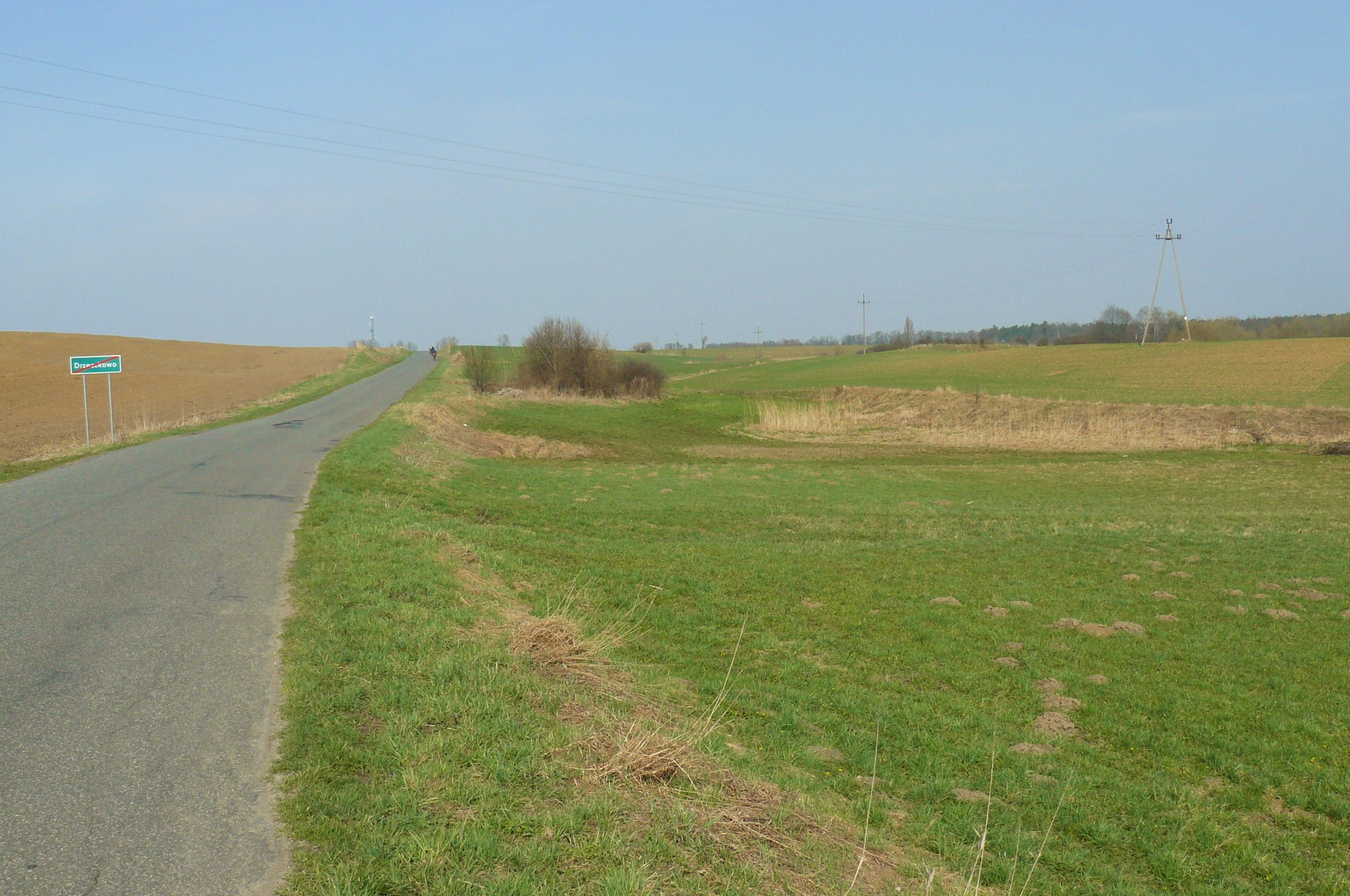 Drzeczkowo.